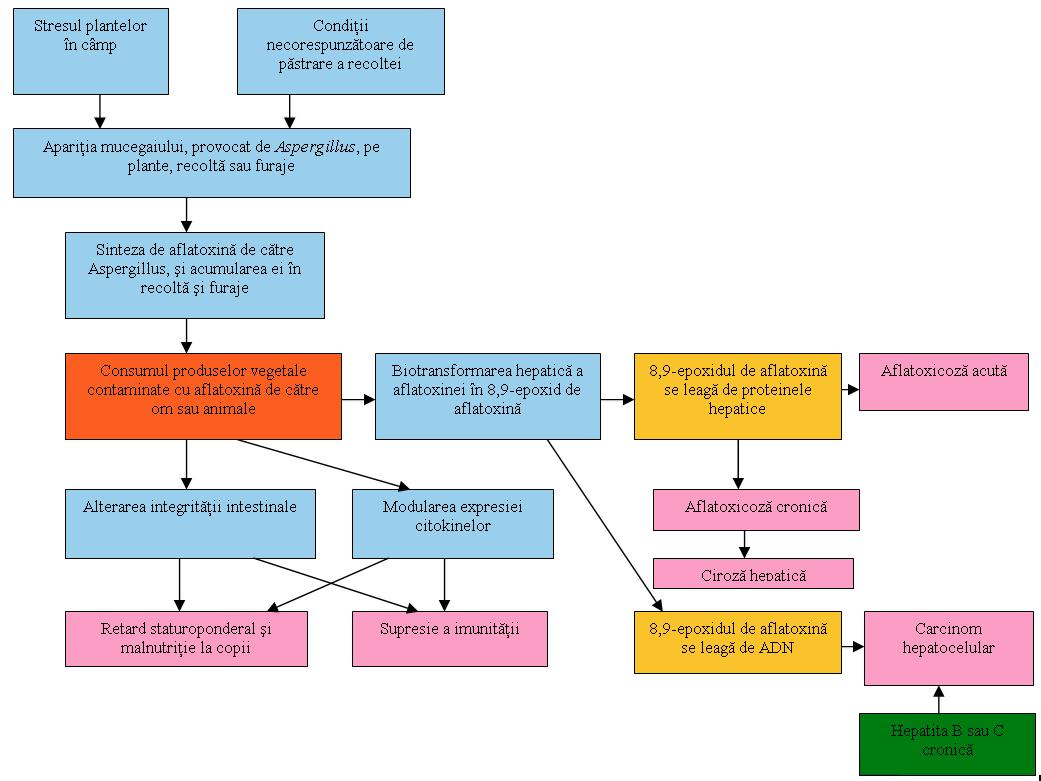 Aflatoxicosis